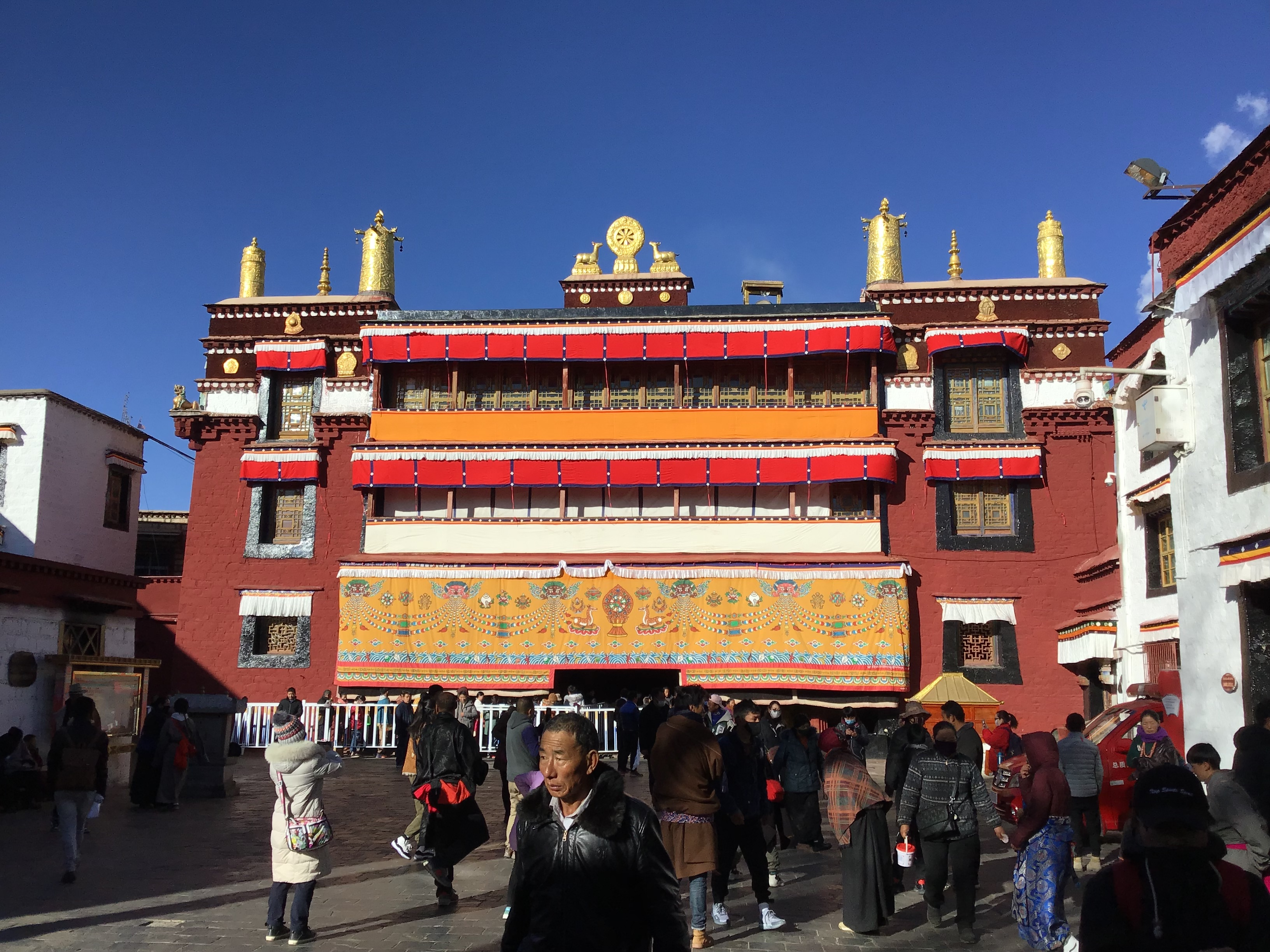 Main hall of the Ramoche Temple